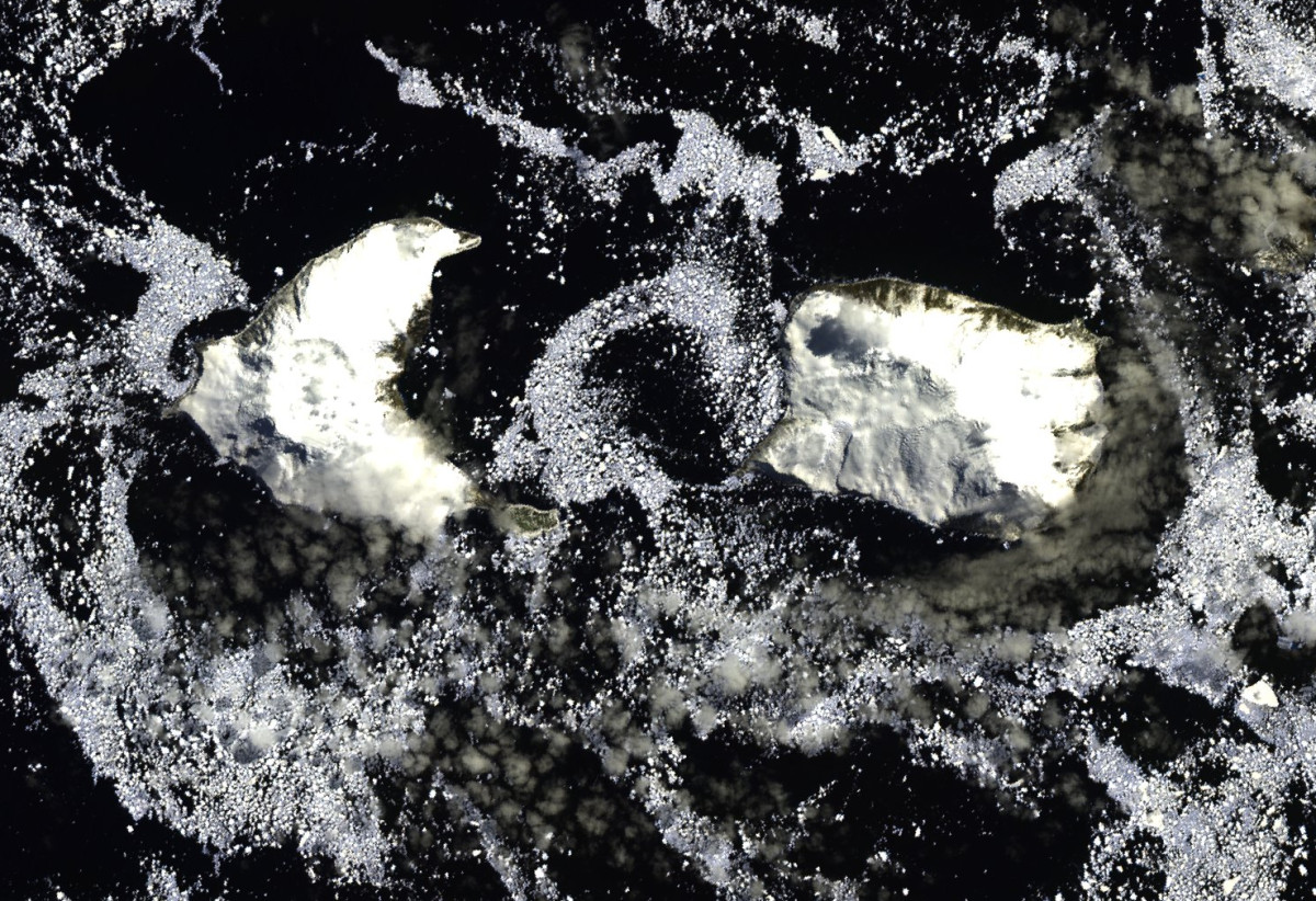 NASA Terra ASTER image of the Southern Thule Islands, South Sandwich Islands, in the Southern Atlantic Ocean